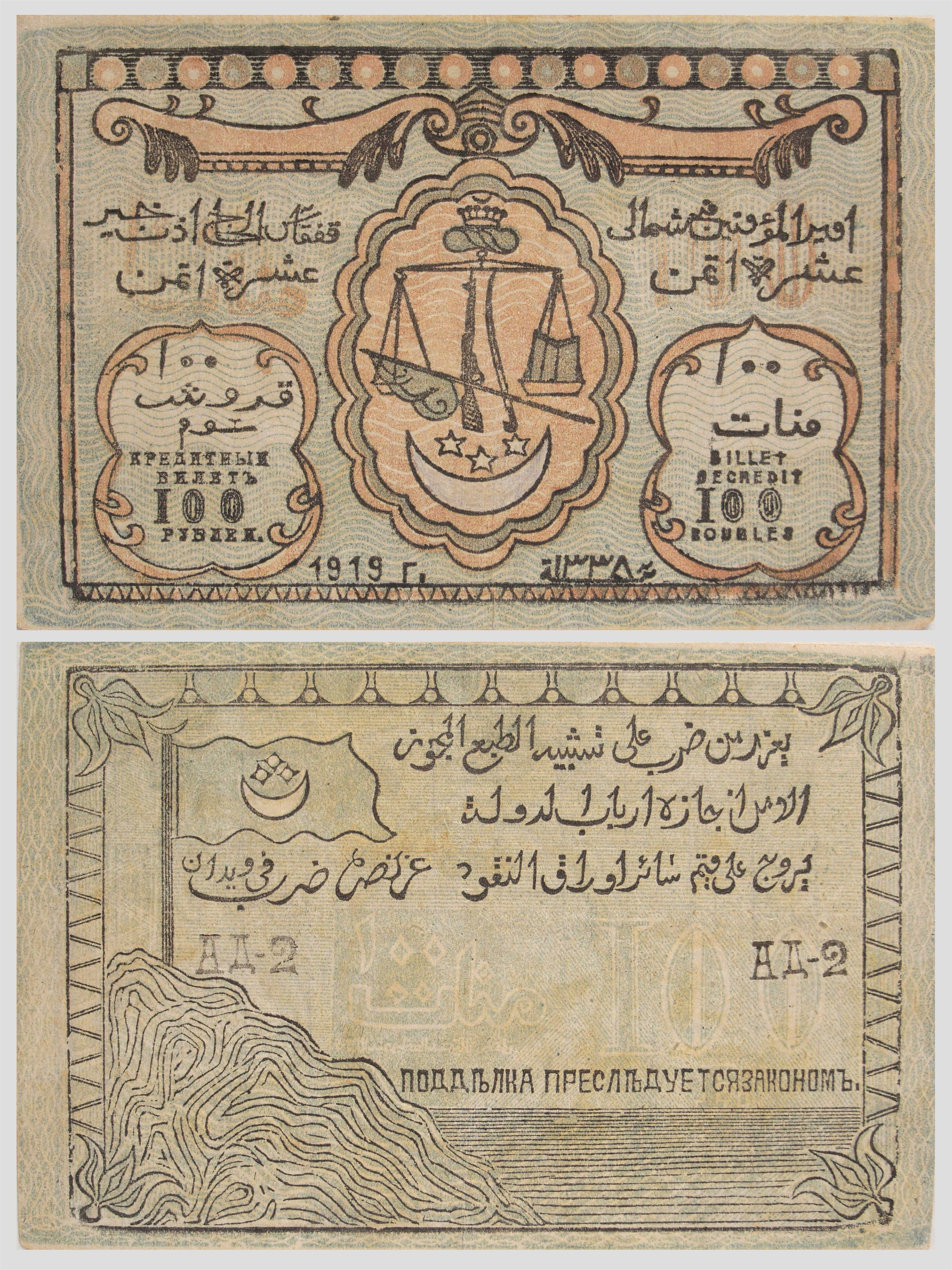 banknote north caucasian emirate, 100 rouble (1919)